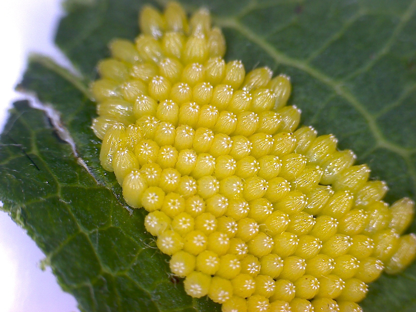 Butterfly eggs (Aporia crataegi) on a piece of apple (Malus domestica)